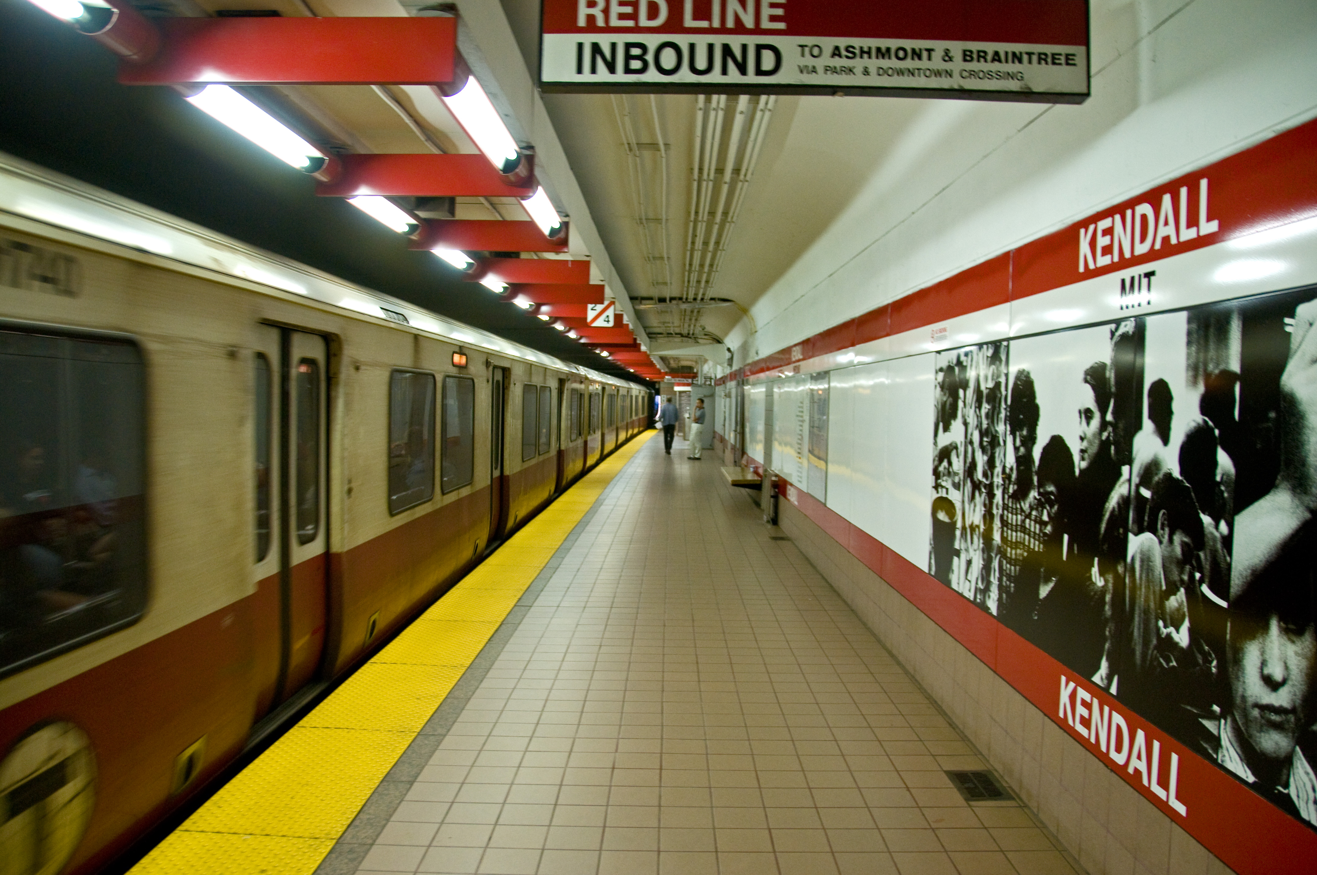 Inbound platform and Red Line train at Kendall/MIT